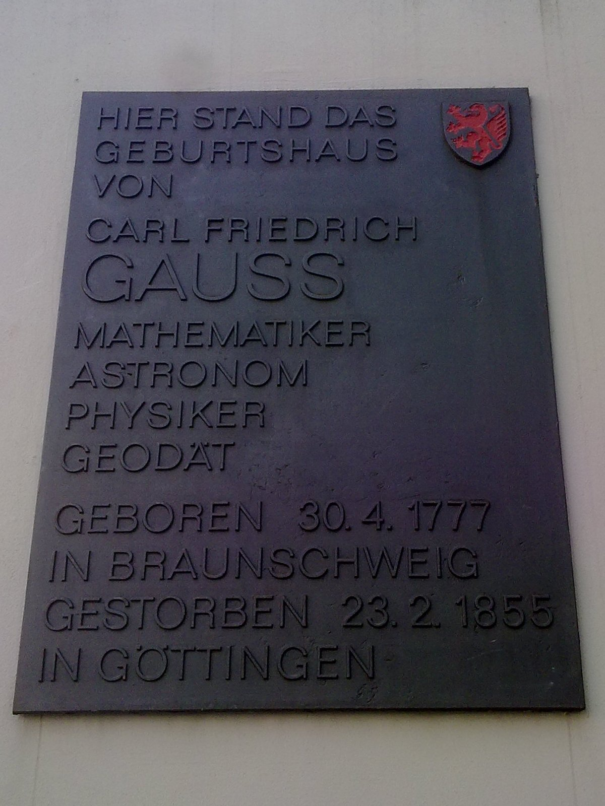 Sign on the former location of Gauss' birth house